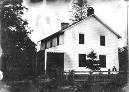 The home of Ebenezer Doan now preserved at the Sharon Temple National Historic Site